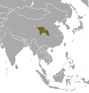 Gansu Mole (Scapanulus oweni) range